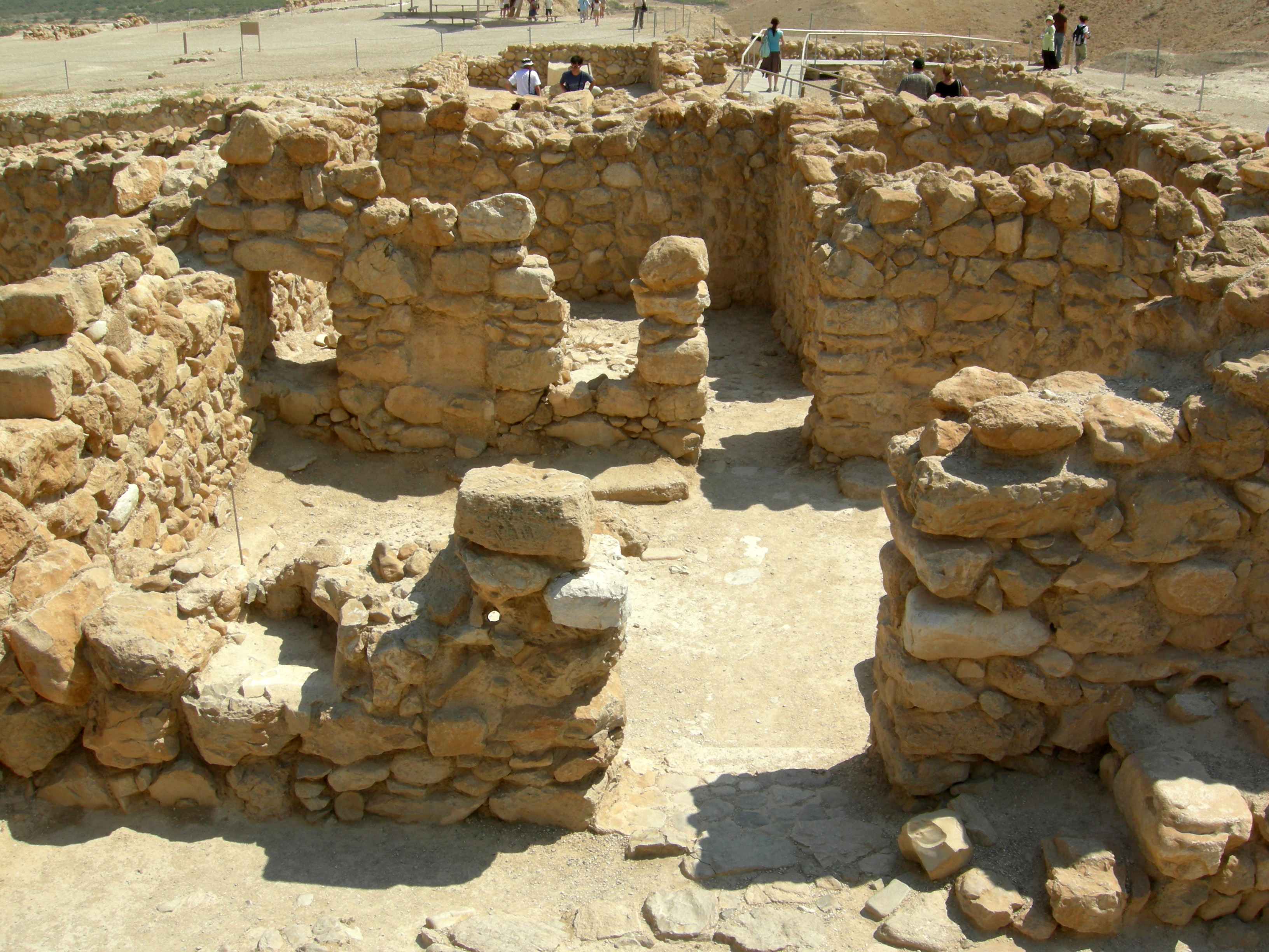 Remains of living quarters at Qumran.